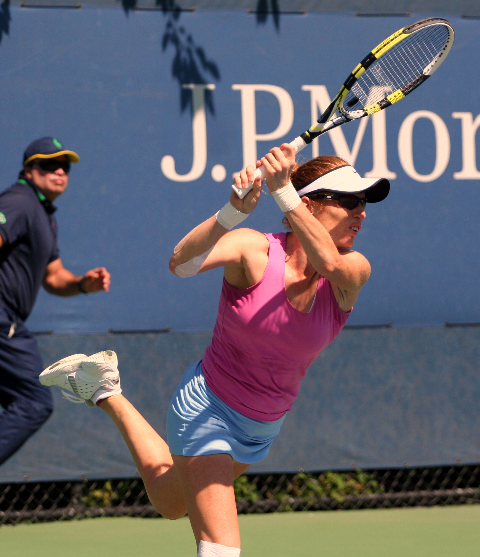 Vladimíra Uhlířová at the 2012 US Open